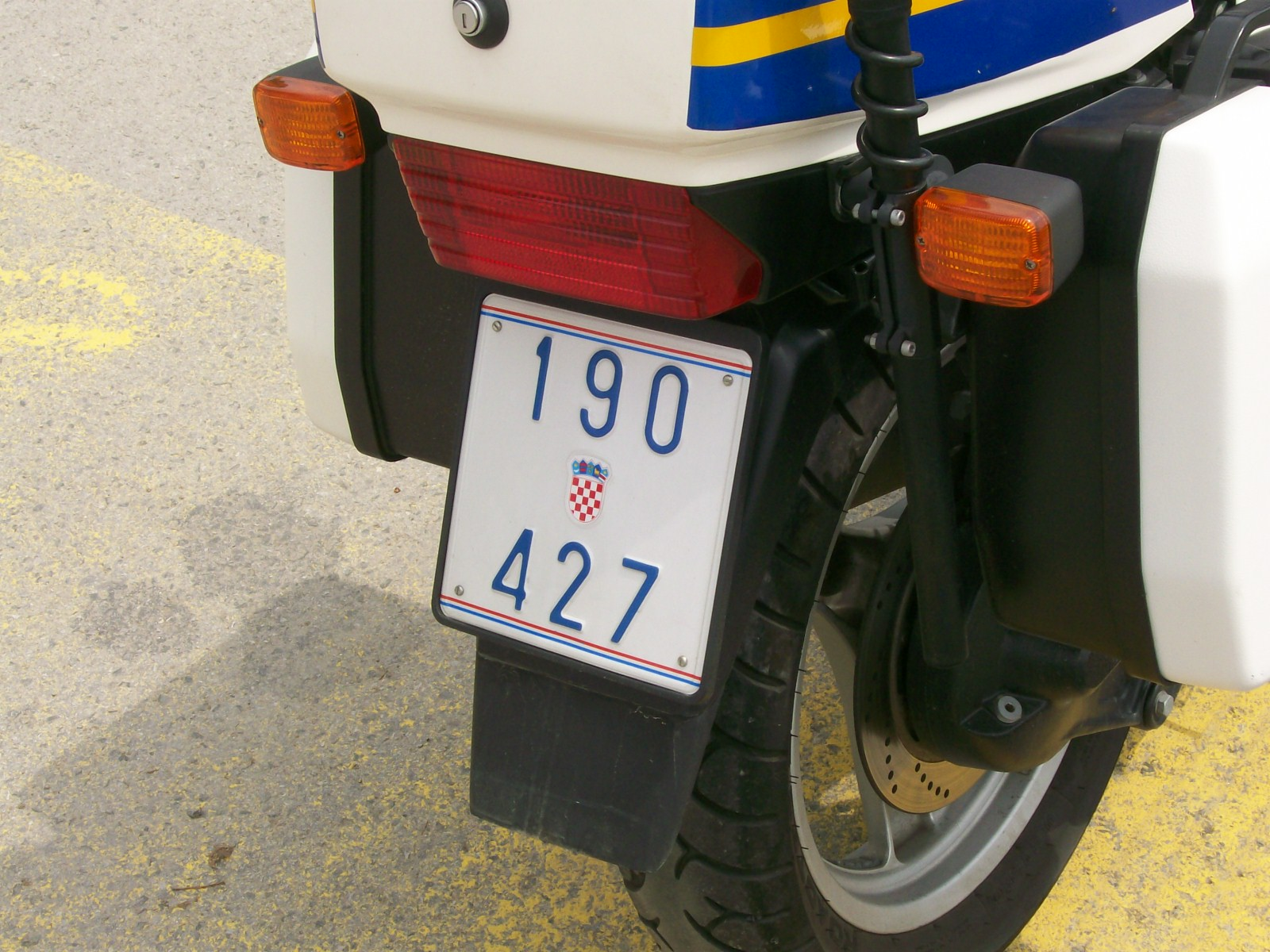 Croatian police license plate (small for police motorcycles)